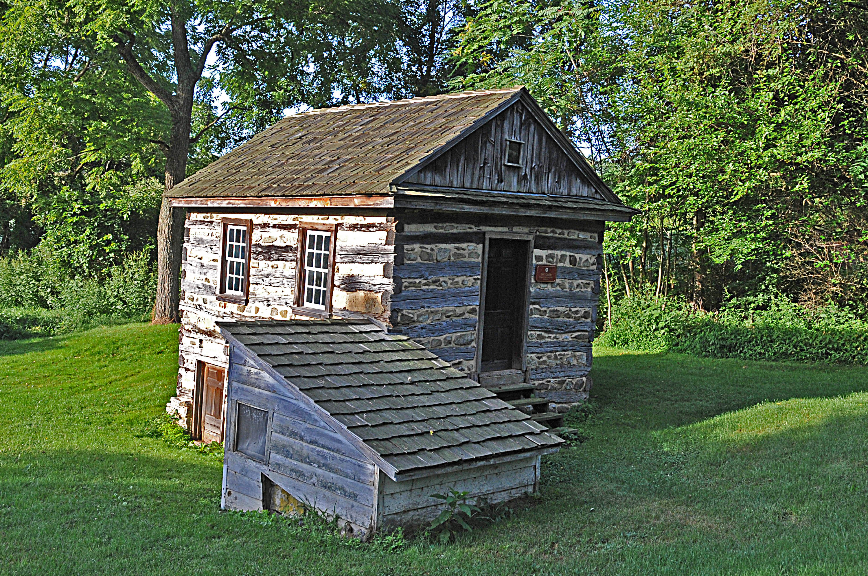 THE FARM ACTUALLY CONSISTS OF 3 FARMSTEADS; ESSIG FARM (19TH CENTURY), STAUDT FARM (18TH CENTURY) AND THE DUNDORE-HOTTENSTEIN FARM (MID 18TH CENTURY). MOST NOTABLE (ON THE STAUDT FARMSTEAD) IS A THREE-LEVEL LOG STRUCTURE COMBINED WITH A SPRING HOUSE, WHICH IS RELATIVELY RARE, DATING FROM ABOUT 1776 AS THE ORIGINAL HOMESTEAD, AND LATER USED AS A SPEICHER. A SPEICHER WAS USED FOR BOTH FOOD PREPARATION AND AS STORAGE TO KEEP GRAIN, MEAL, BREAD, MEAT, TOOLS AND OTHER ITEMS NOT KEPT IN THE MAIN HOUSE. IT WAS INTRODUCED BY SWISS AND MENNONITES FROM SWITZERLAND